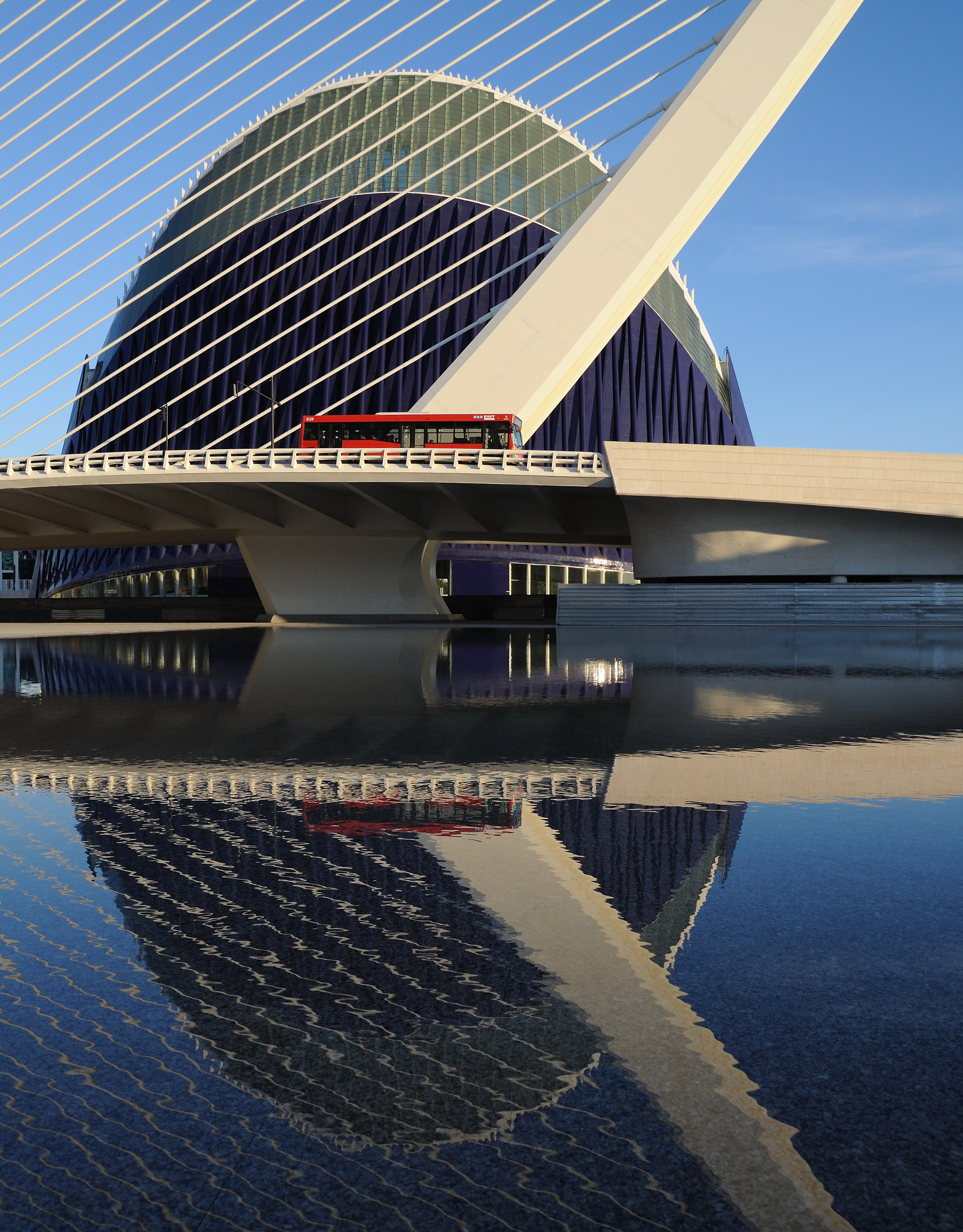 The Agora and de l'Assut de l'Or Bridge - Part of the Arts and Science complex in Valencia Spain